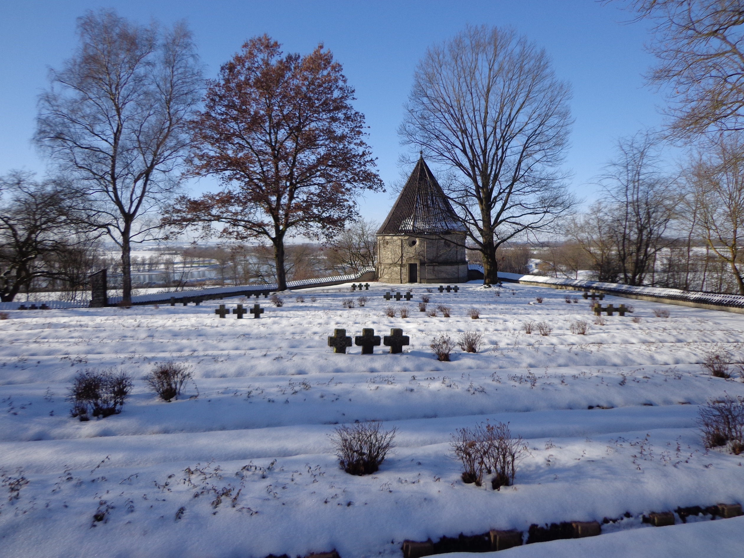 Hofkirchen war cemetery (Hofkirchen, Landkreis Passau, Bavaria, Germany)